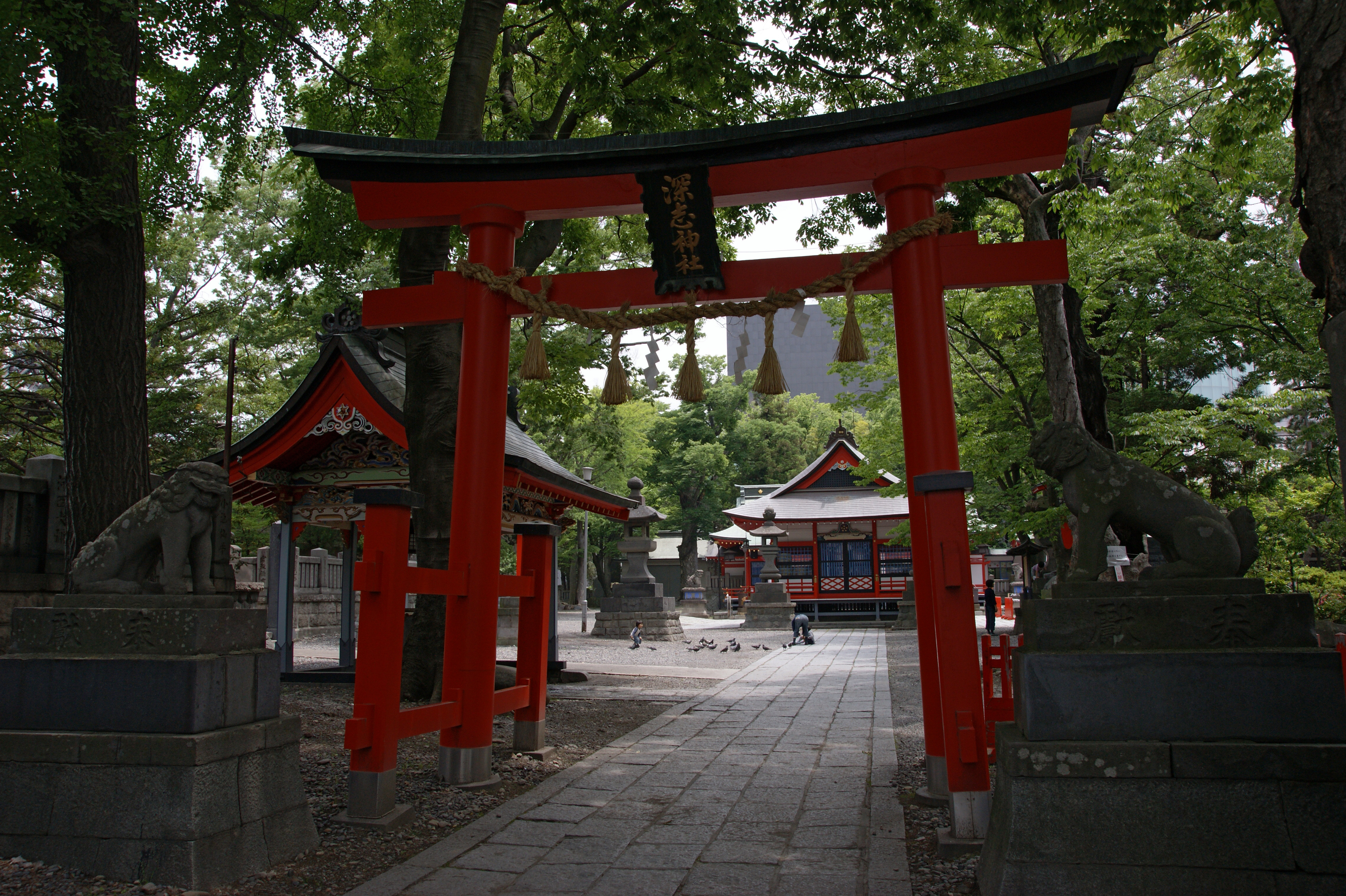 Fukashi-jinja in Matsumoto, Nagano prefecture, Japan